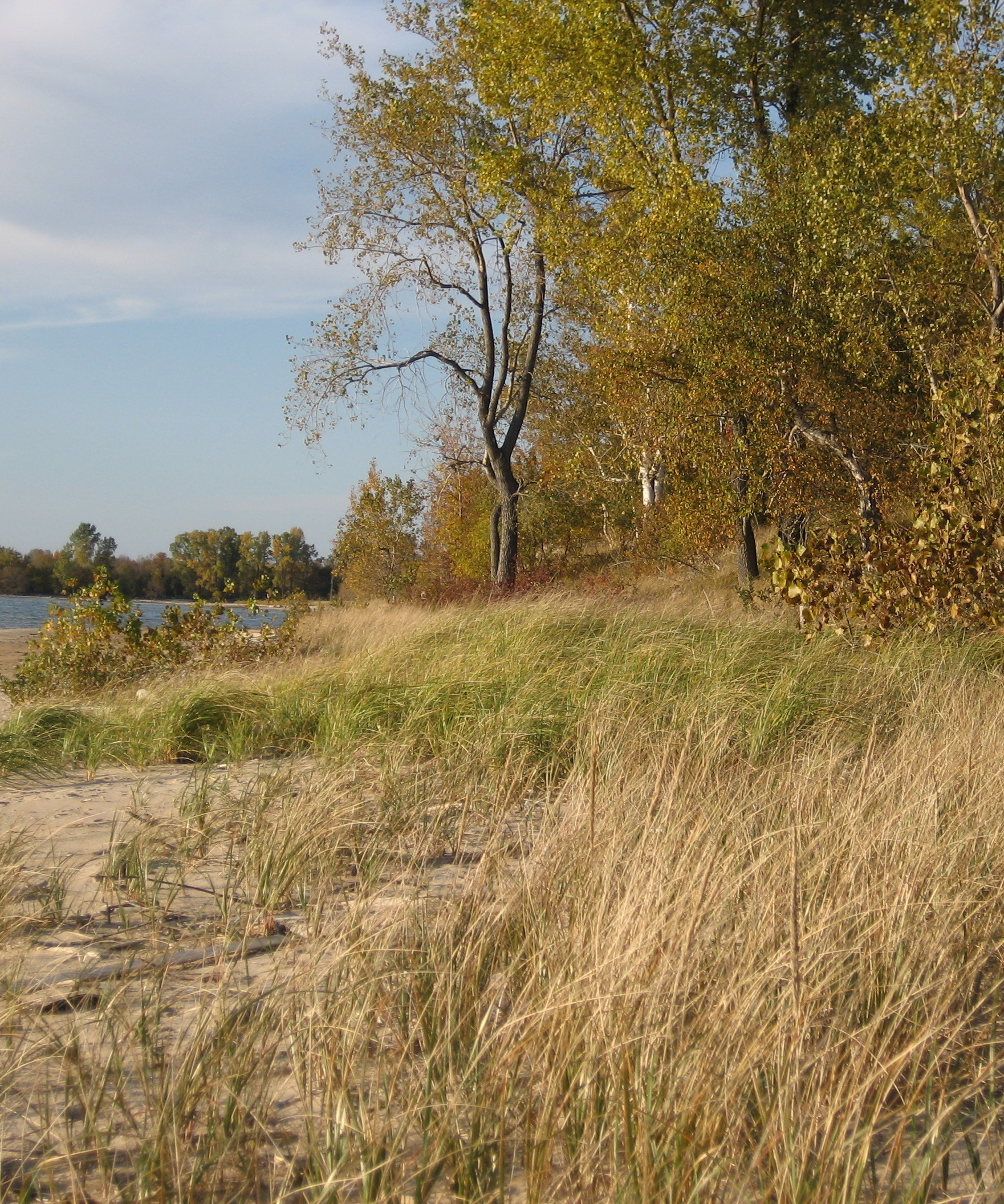 American beachgrass (Ammophila breviligulata) growing on the eastern shore of Lake Ontario. The stand that is greener is "Cape variety", and has been introduced to this area; it is native to the Atlantic Ocean coasts of North America. The stand in the foreground that is browner is the native "Champlain beachgrass". October photograph taken in Black Pond Wildlife Management Area, New York.